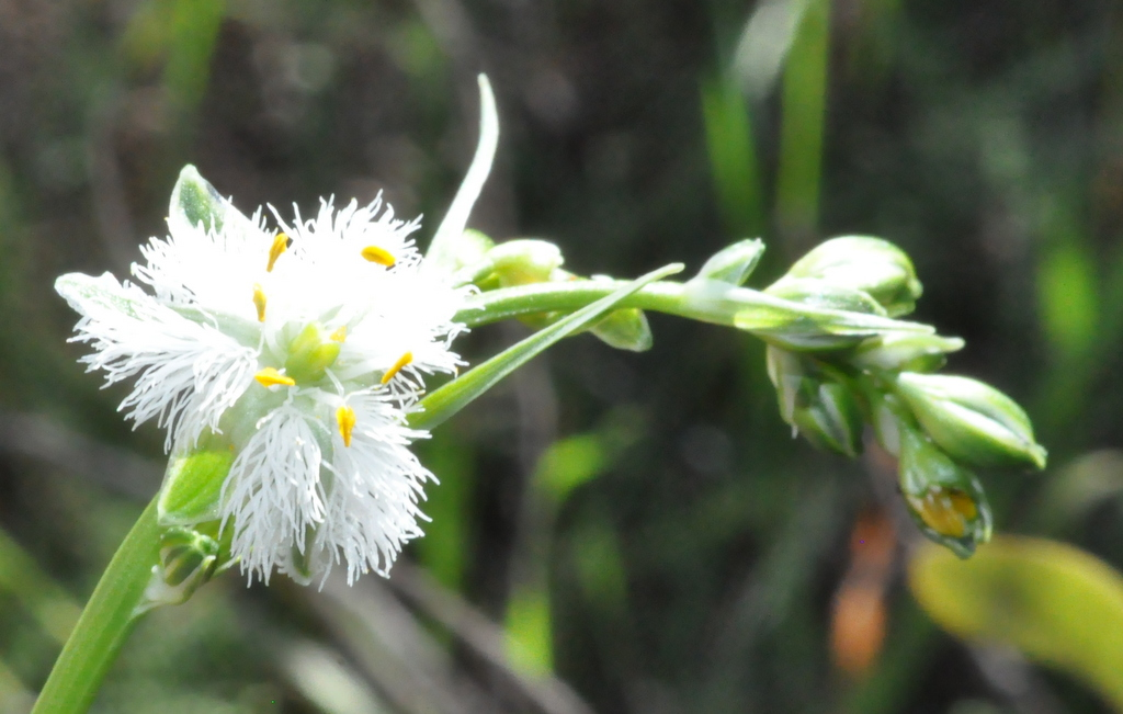 Trichopetalum plumosum (Flor de la plumilla) from Champa, Paine commune, Region Metropolitana, Chile